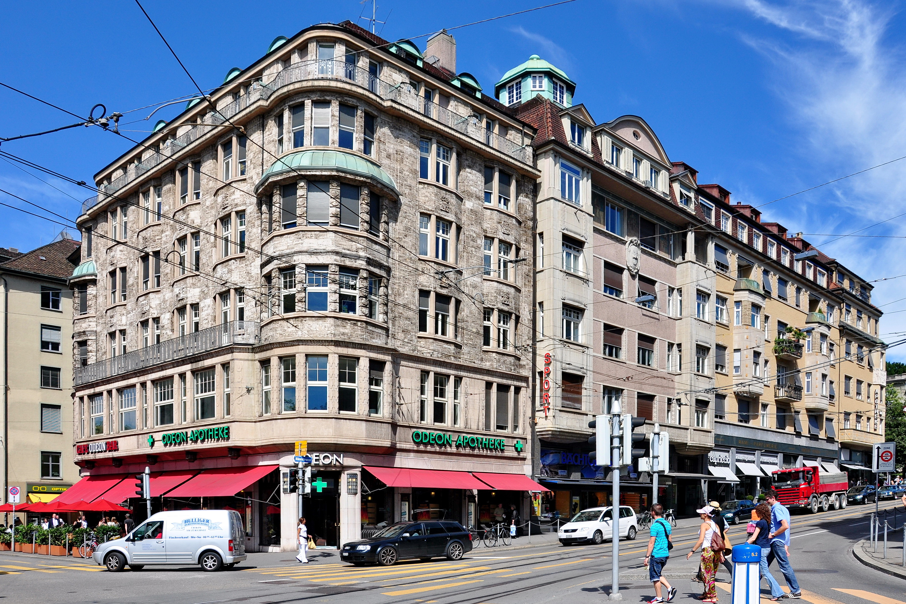 Grand Café Odeon in Zürich (Switzerland), as seen from Bellevue, Limmatquai to the left, Rämistrasse to the right.